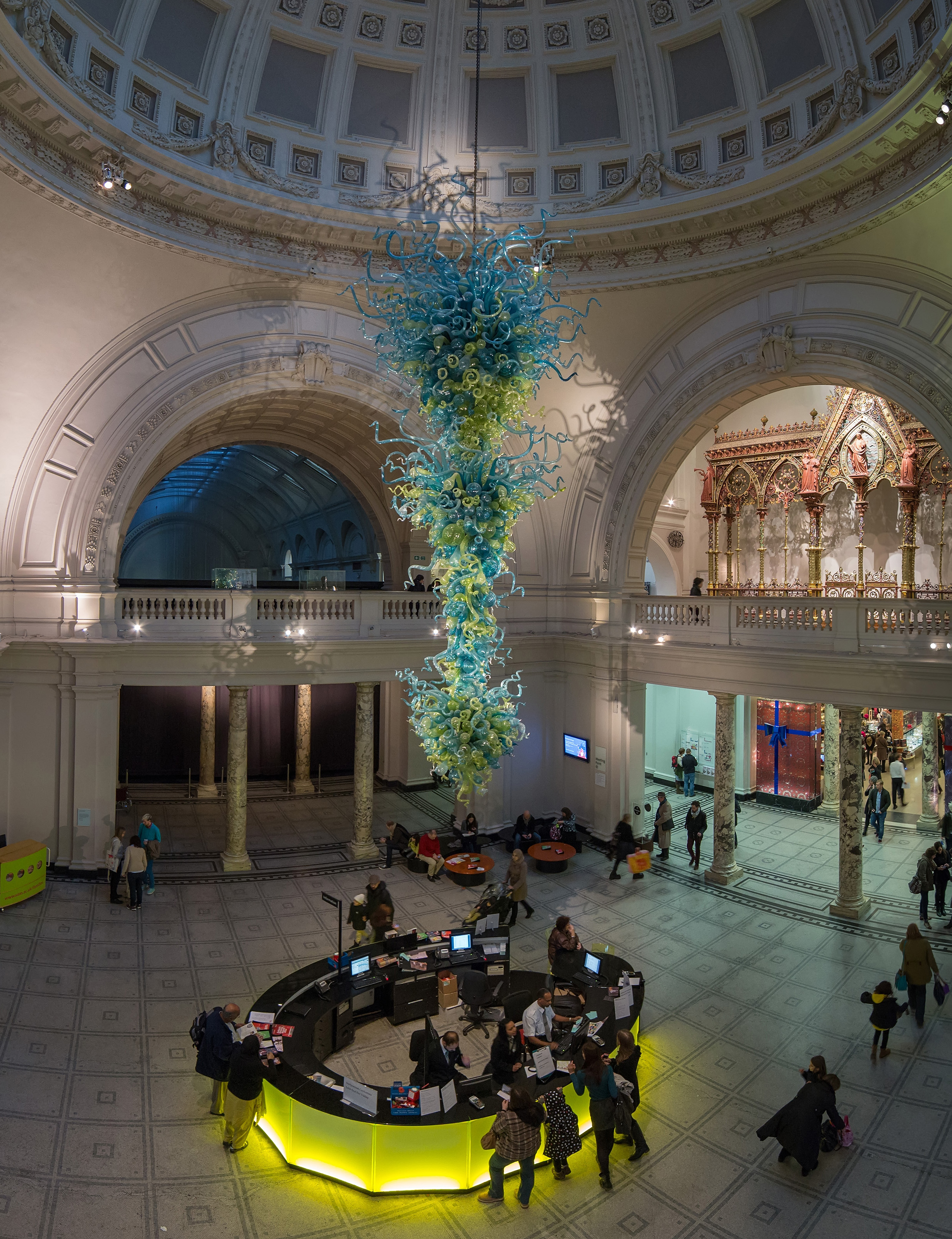 The foyer of the Victoria and Albert Museum in London, UK. The blown glass chandelier by Dale Chihuly features prominently.